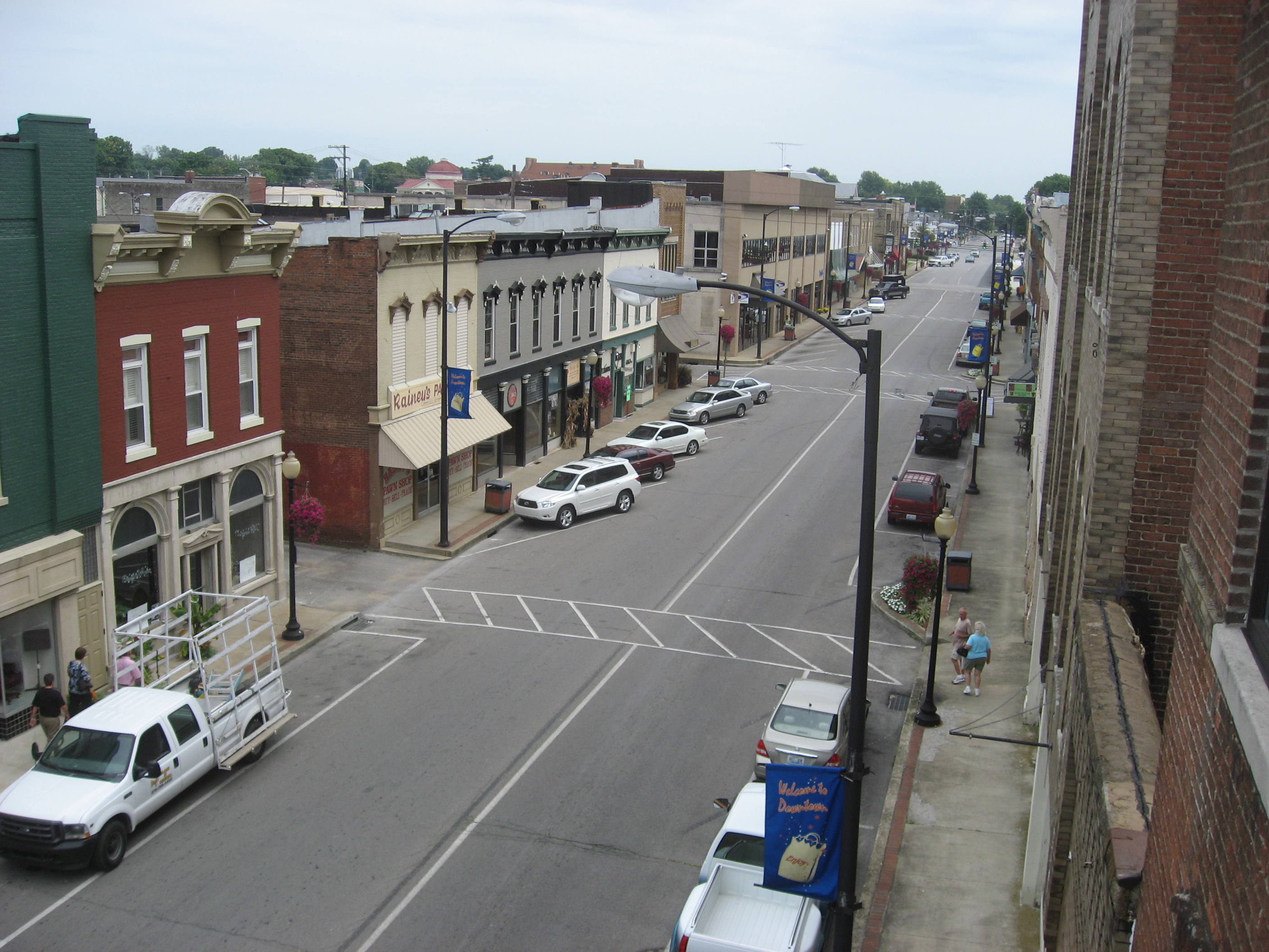 Downtown Campbellsville